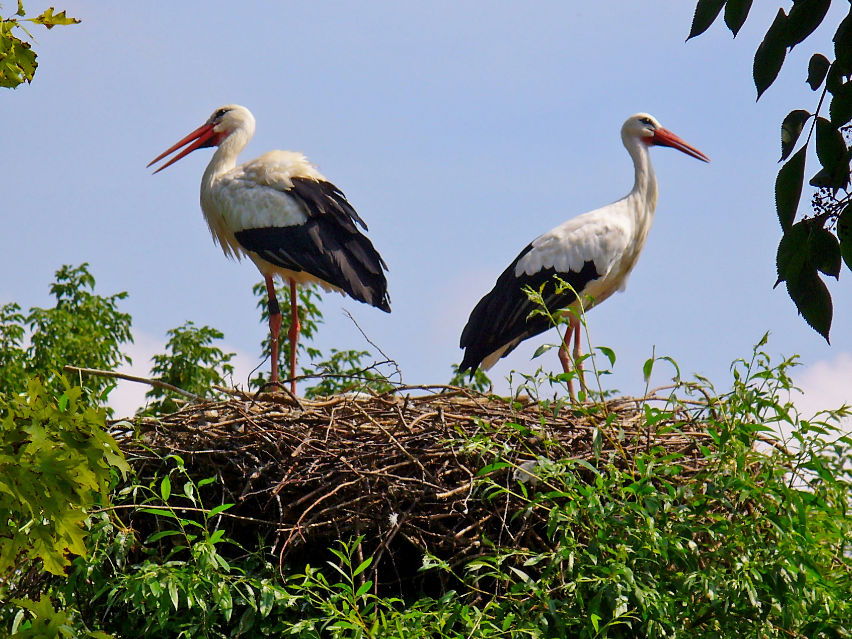 Ciconia ciconia, Ciconiidae, White stork; Zoo Karlsruhe, Germany. The flight muscle is used in homeopathy as remedy: Ciconia ciconia (Cicon-c.)